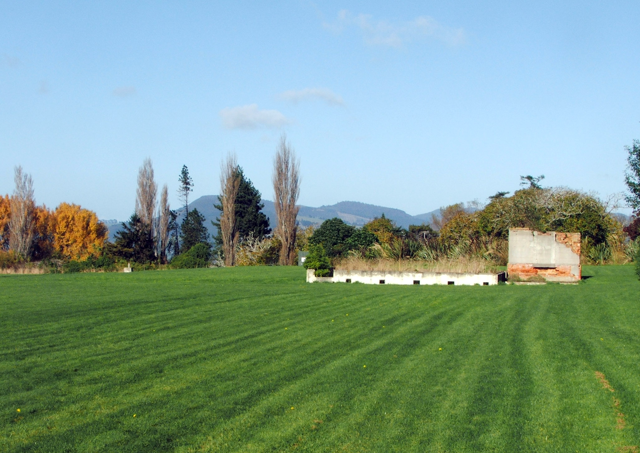 Little remains on the Truby King Reserve of New Zealand's former Seacliff Mental Hospital other than a few building foundations.